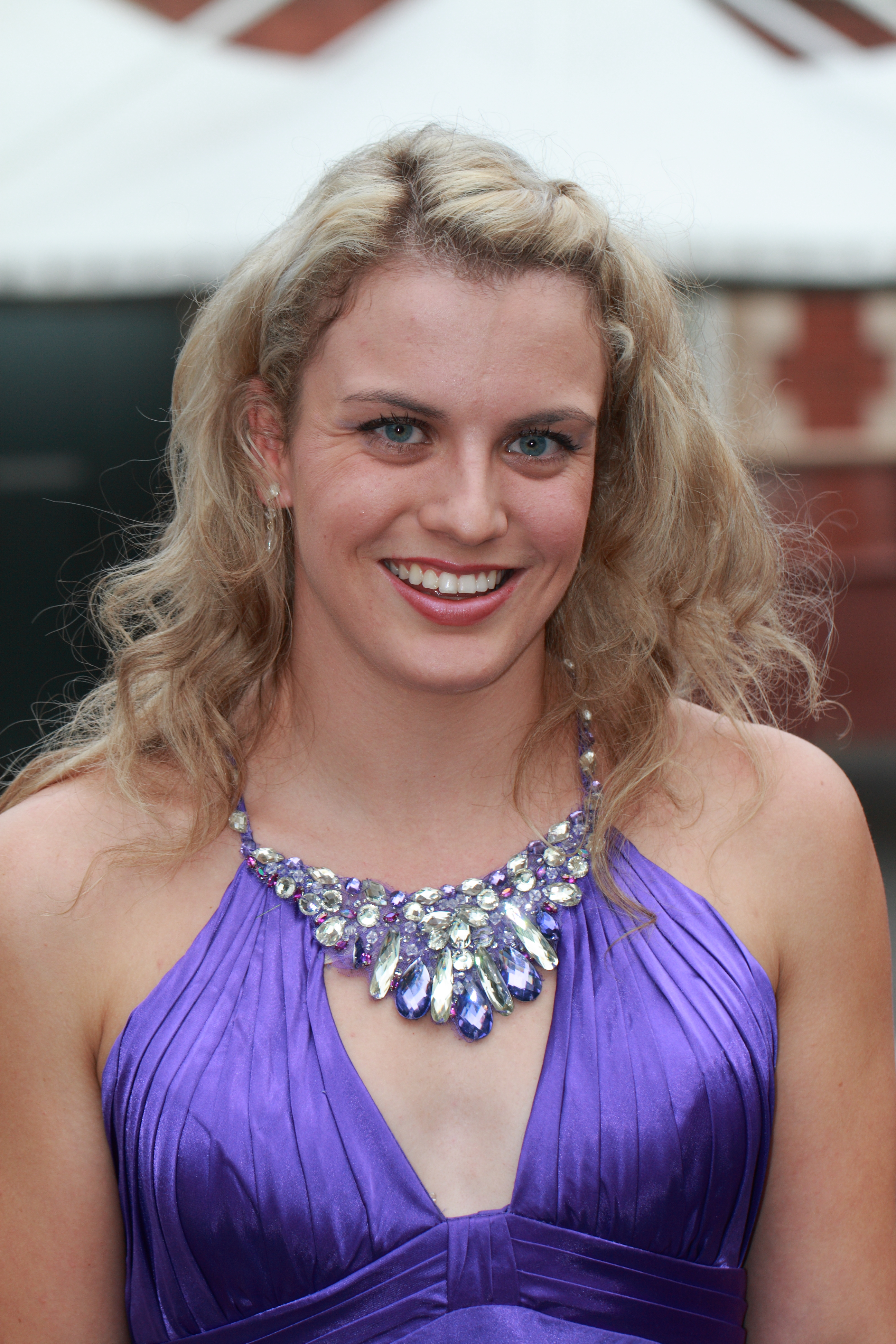 Jacqui Freney at the Australian Paralympian of the Year 2012 ceremony at the Hordern Pavilion, Sydney, Australia.